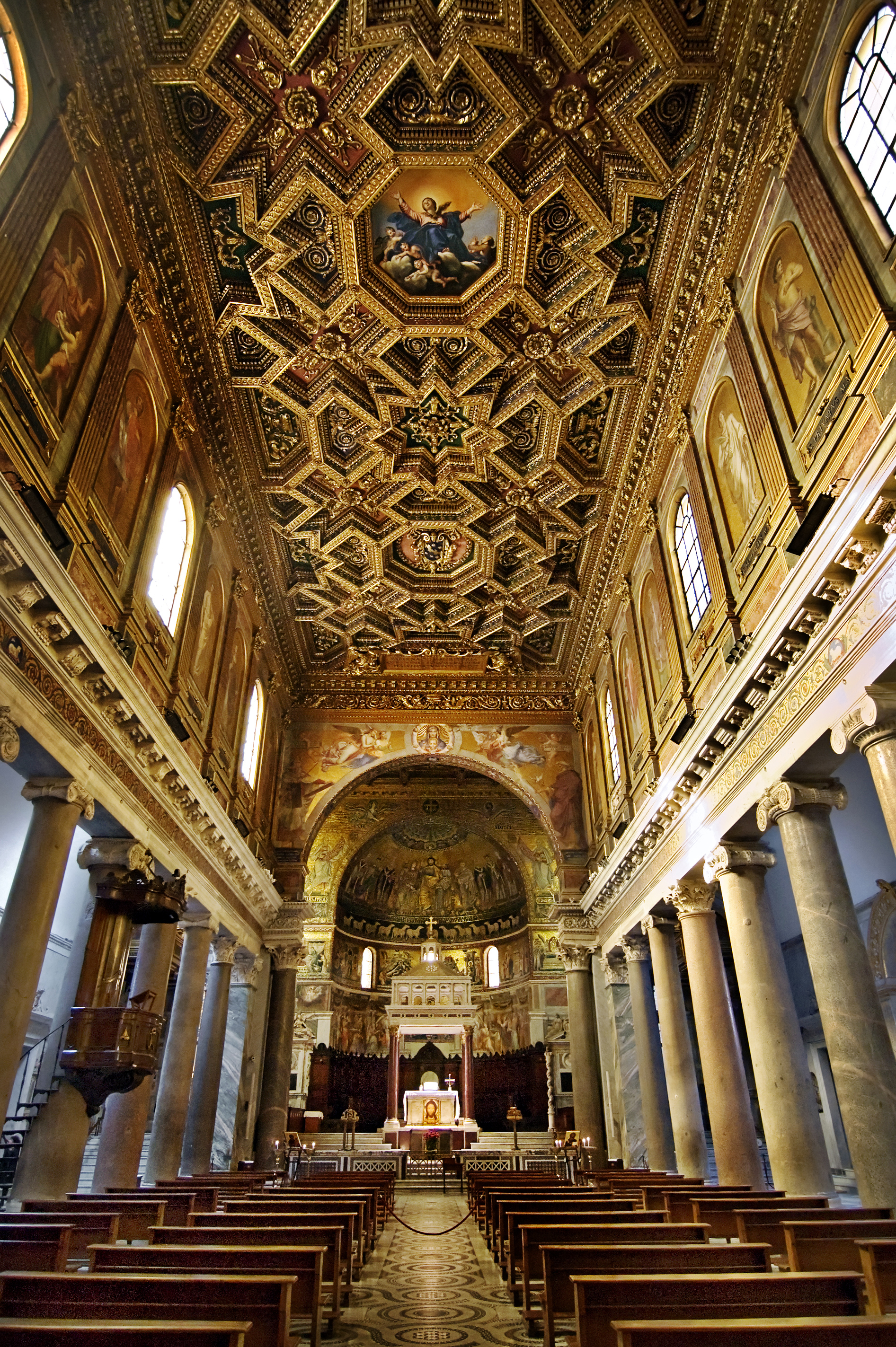 Inside of The Basilica of Our Lady in Trastevere (Italian: Basilica di Santa Maria in Trastevere), one of the oldest churches in Rome.